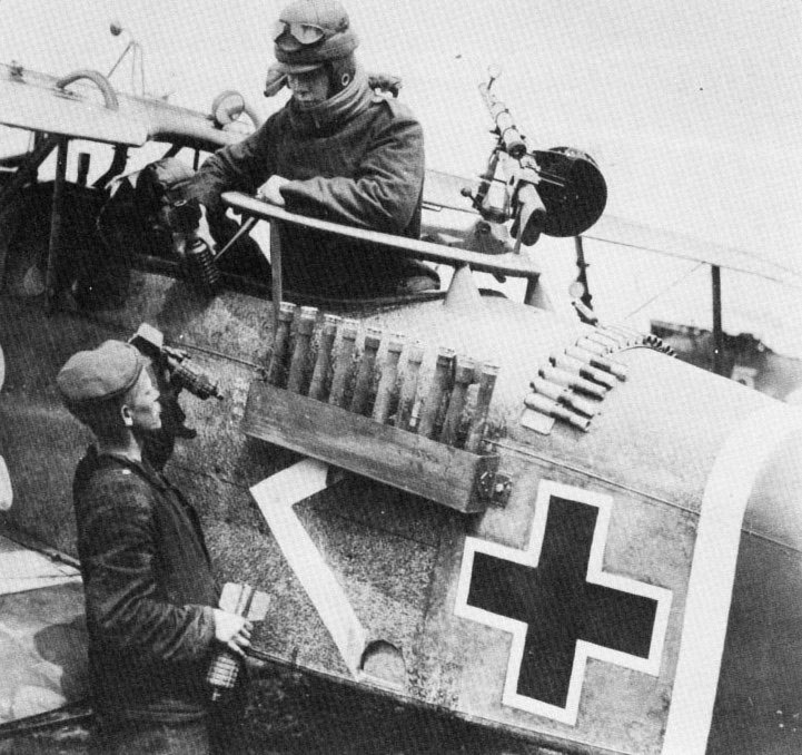 Photo of Halberstadt CL.II bomb rack samf4u.jpg